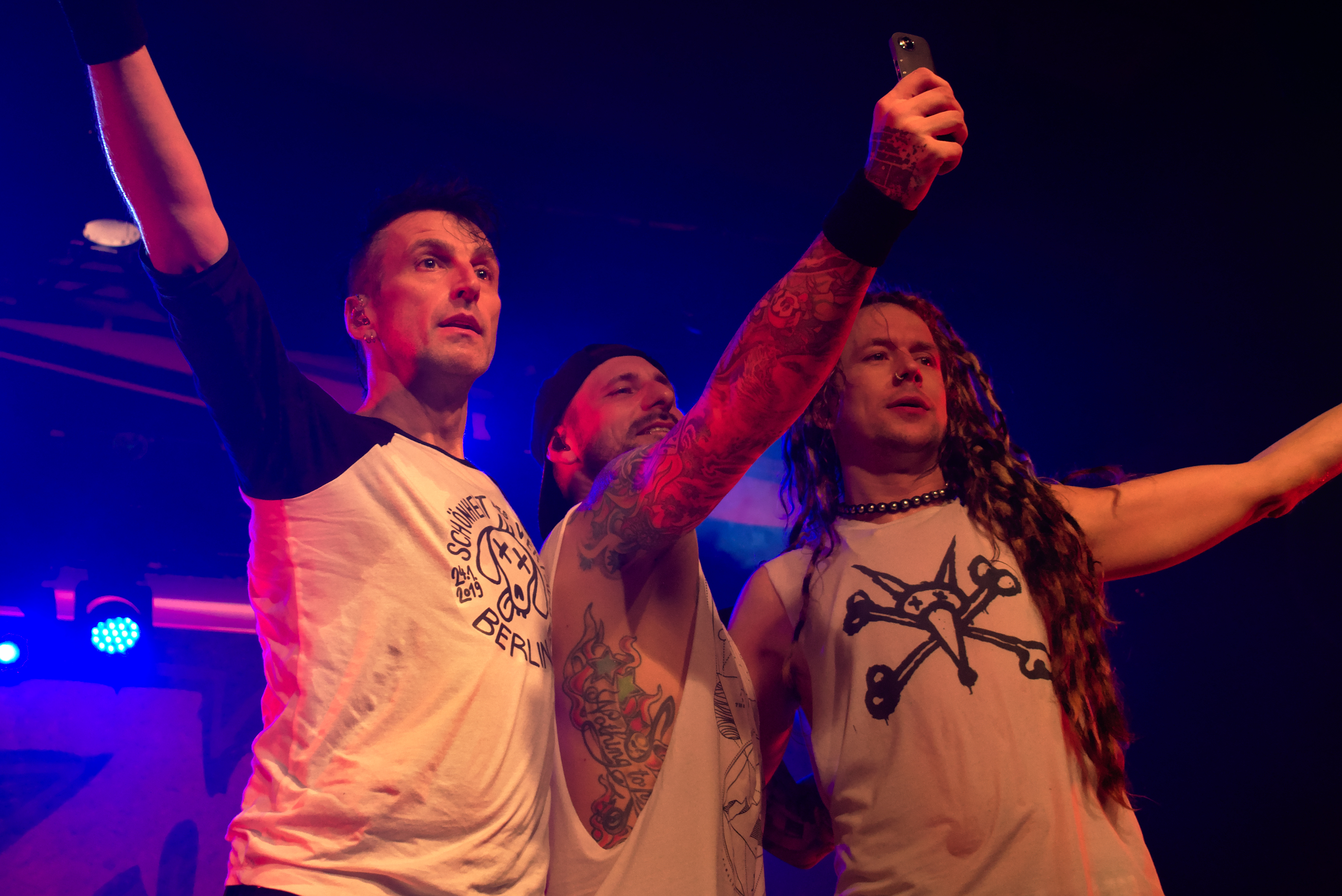 The German Punk rock band Wizo, live in concert at the Astra Kulturhaus, Berlin, Germany. January 24, 2019.